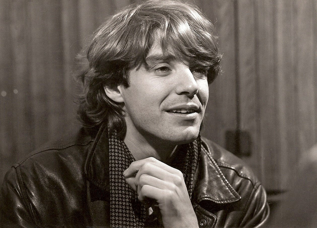 Didier Lockwood (1981), French jazz violinist